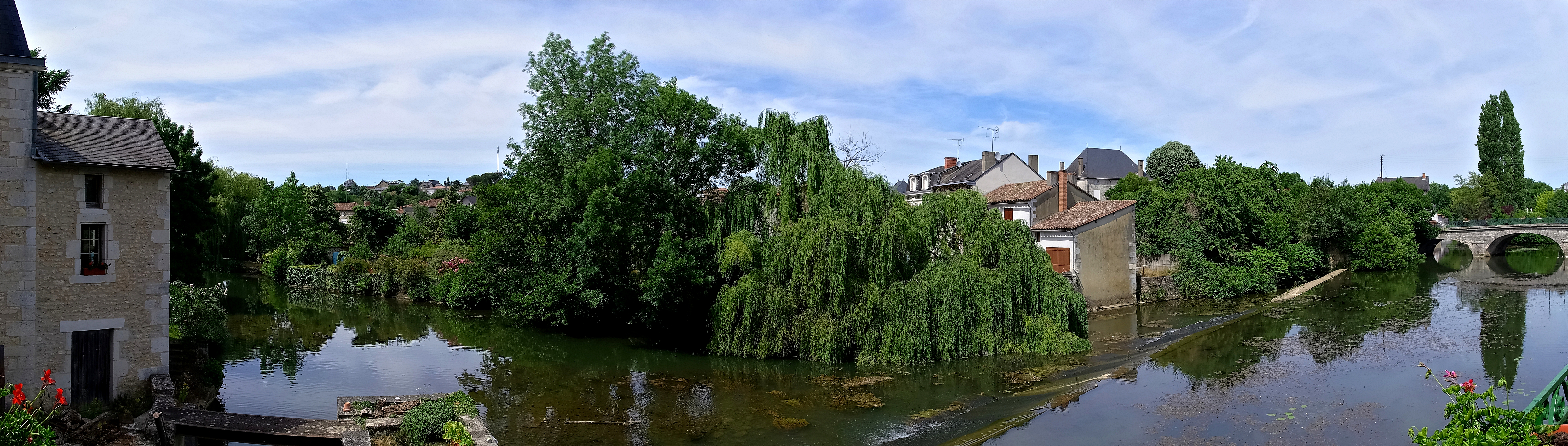 The river Charente in Civray, Vienne, France.